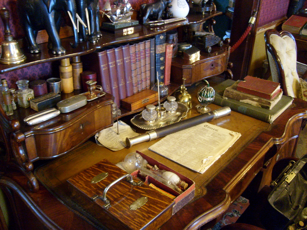 Sherlock Holmes study view (Trafalgar Sq., Holmes Museum, Hyde Park)